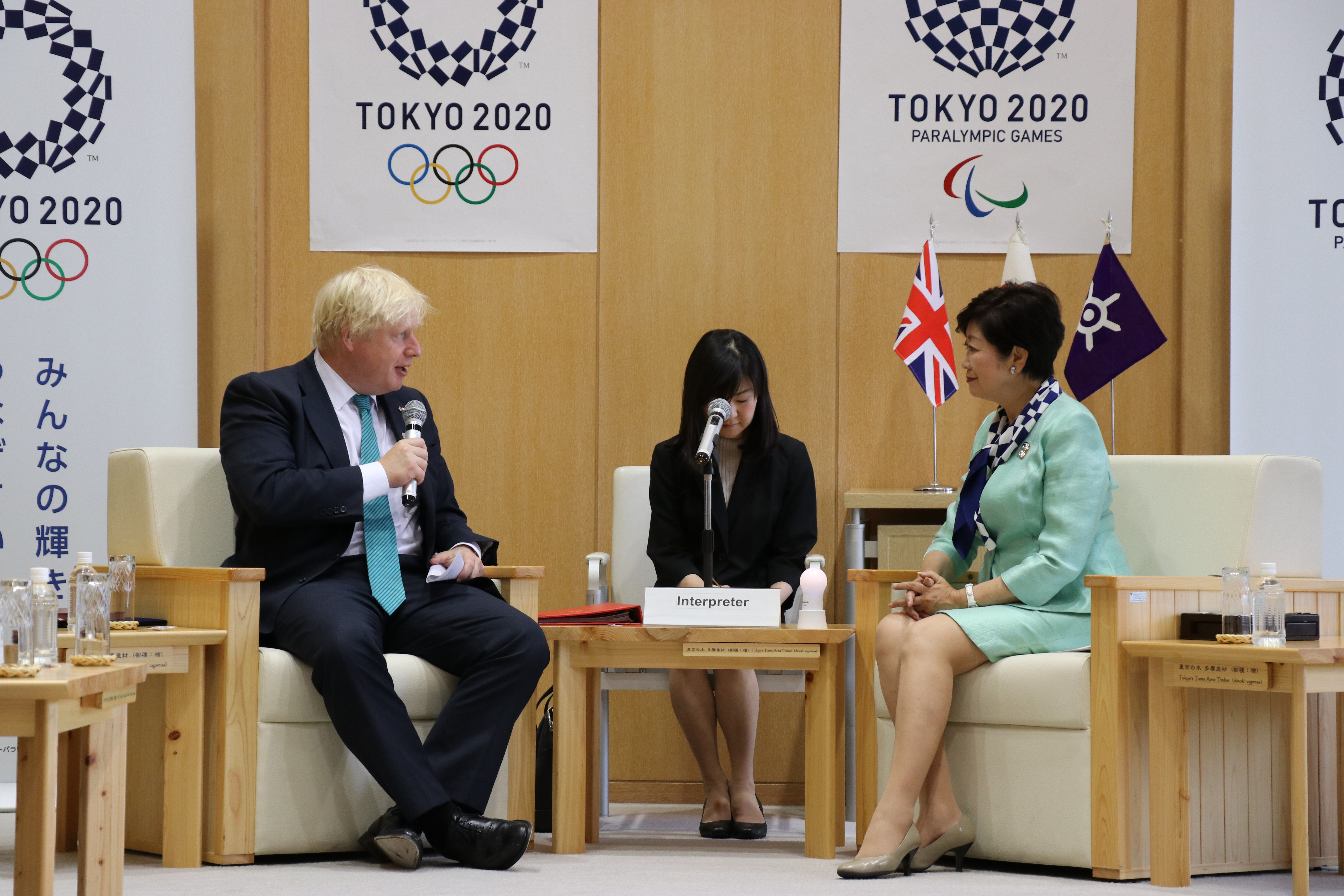 Foreign Secretary meets Tokyo Governor Koike. (c)British Embassy Tokyo